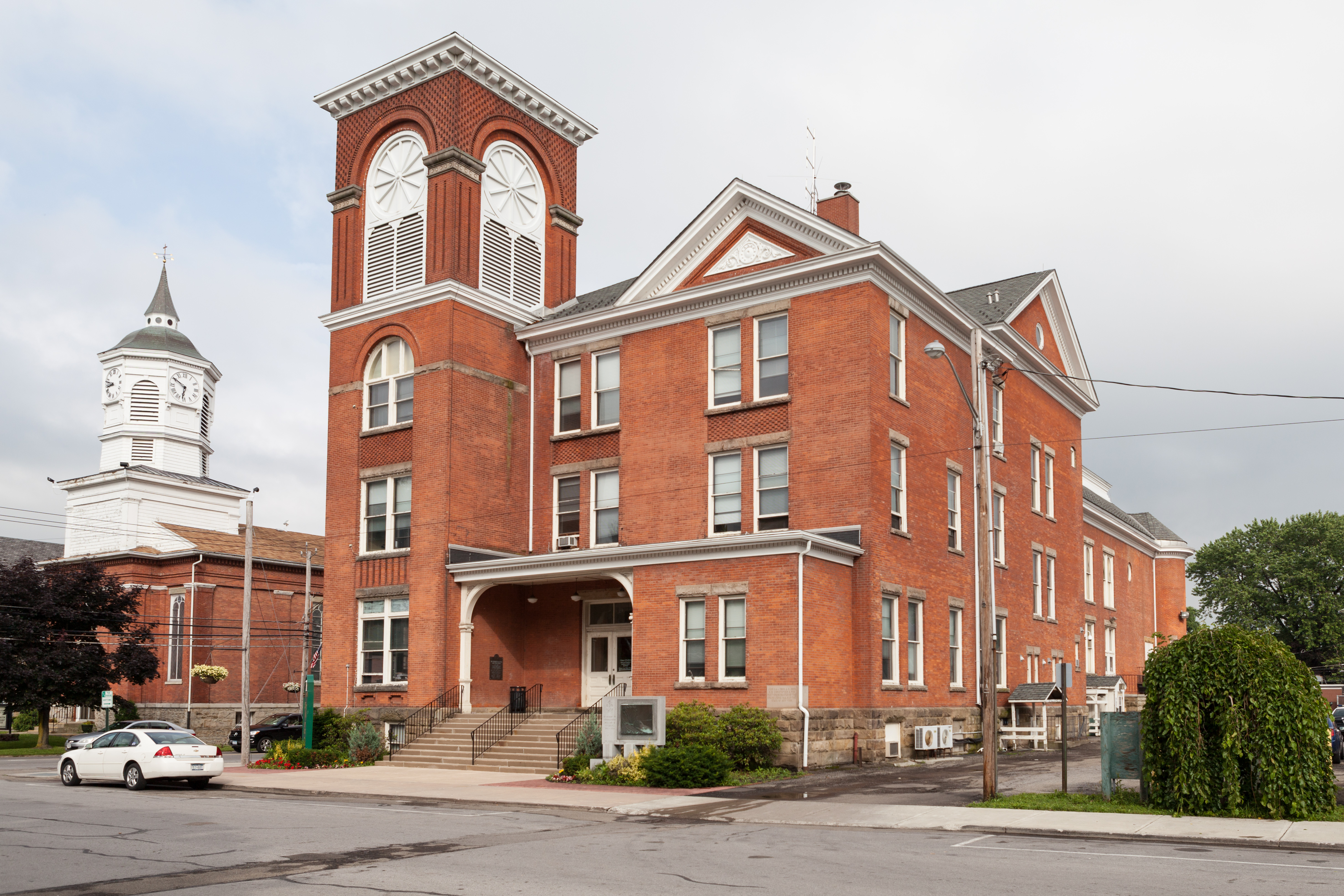 Fredonia Village Hall, Fredonia, New York, in the Fredonia Commons Historic District. Photo is from Church Street, looking west.